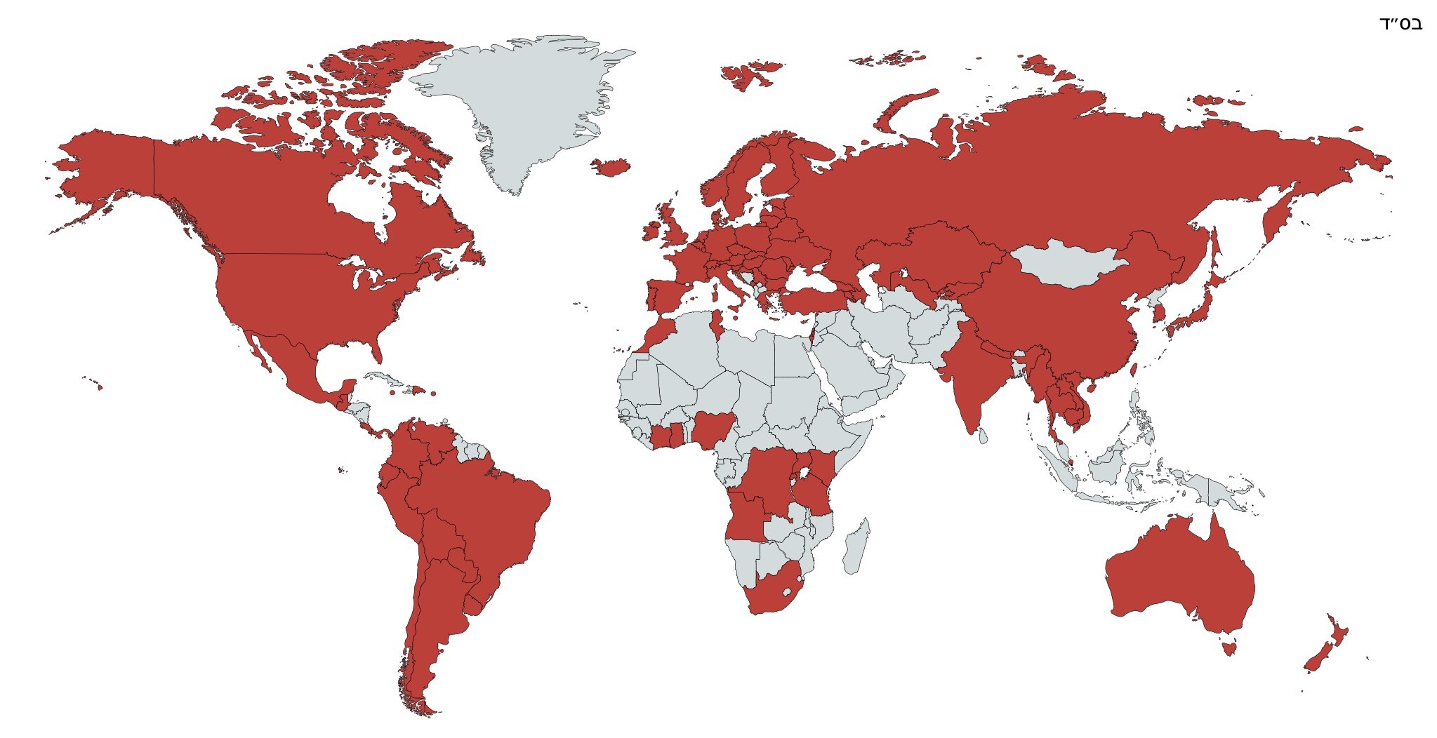 Sourced from